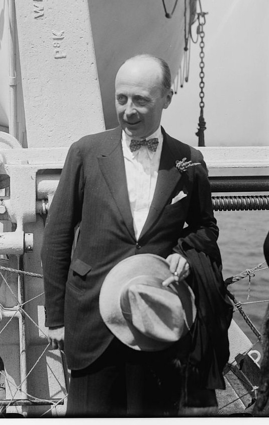 Prince Miguel Maximiliano Sebastão Maria of Braganza, Duke of Viseu (22 September 1878 - 21 February 1923) was an Infante of Portugal and member of the House of Braganza.